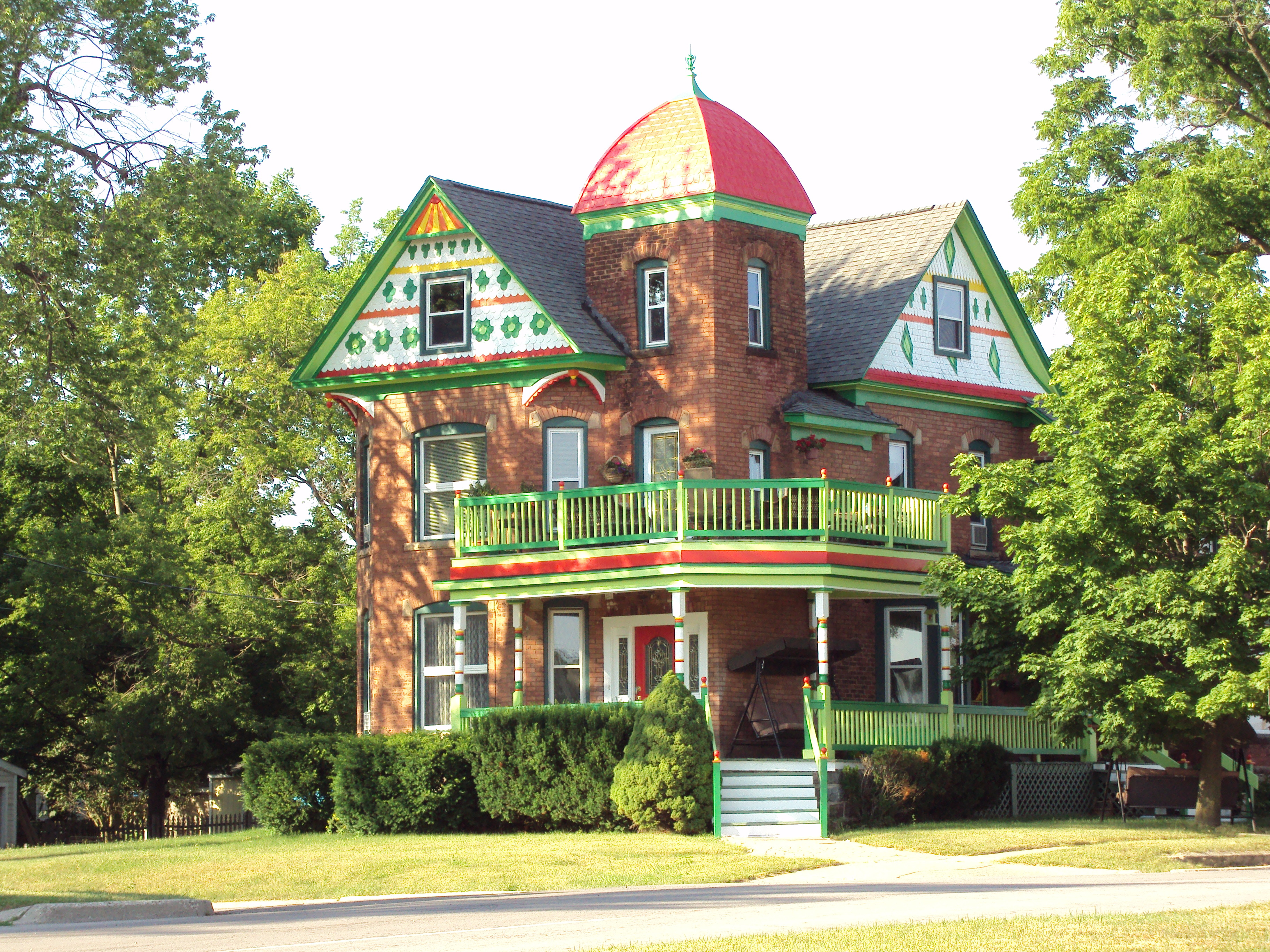 Rodney G. Hart House (Lapeer, Michigan)